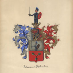 Coats of arms of the House of Soterius von Sachsenheim